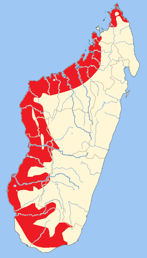 Native range of genus Cryptostegia, adapted from McFadyen RE, Harvey GJ. Distribution and control of rubbervine, Cryptostegia grandiflora, a major weed in northern Queensland. Plant Protection Quarterly 1990; 5: 152–5. Cryptostegia madagascariensis and Cryptostegia grandiflora